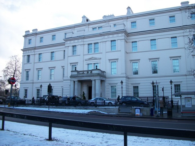 The Lanesborough Hotel entrance The building was formerly St Georges Hospital